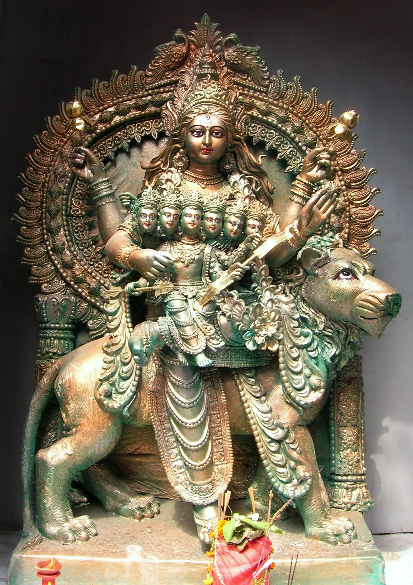 Devi Skandamata (Mother of Kartikeya), Sanghasri, Kalighat, Kolkata, 2010.